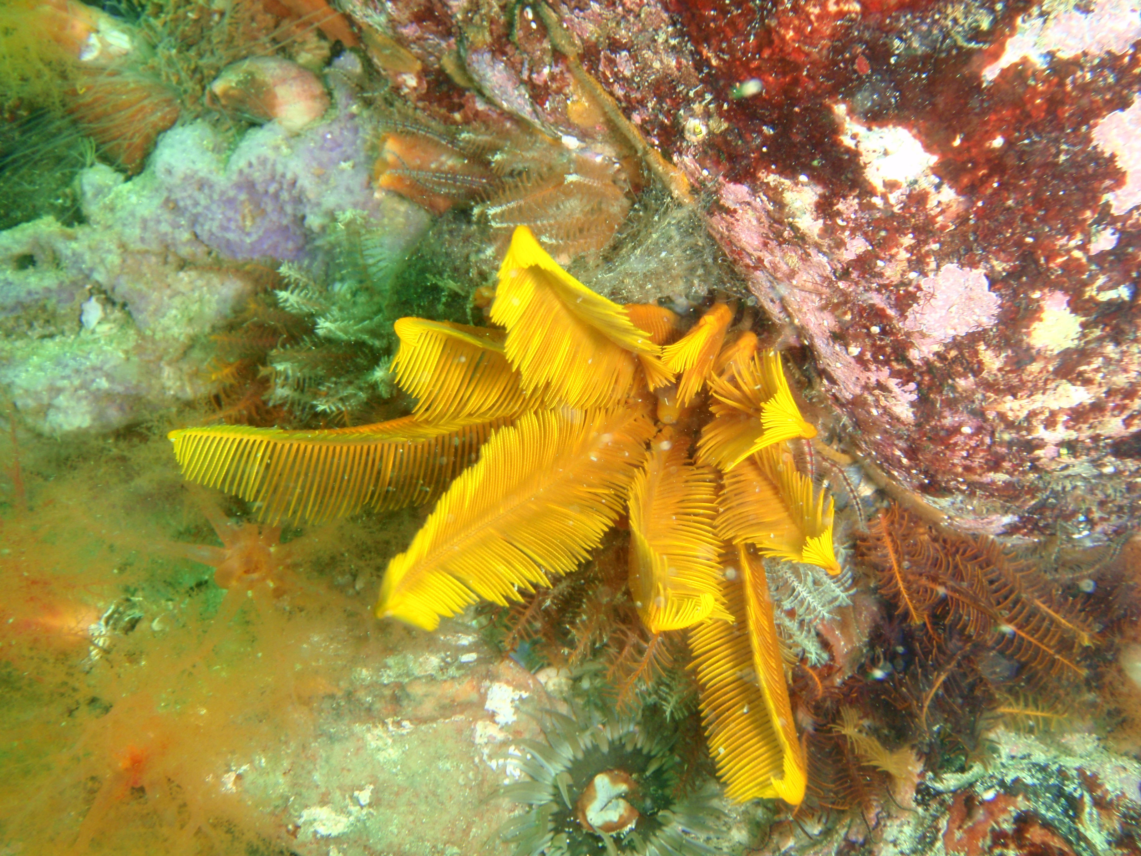 Elegant feather star at Lorry Bay, south of Gordon's Bay on the east side of False Bay